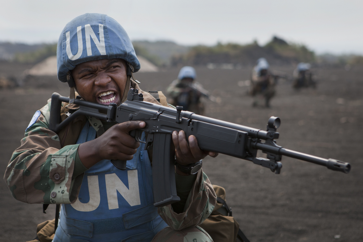 FIB South African soldier during training, Sake, the 17th of July 2013. © MONUSCO/Sylvain Liechti